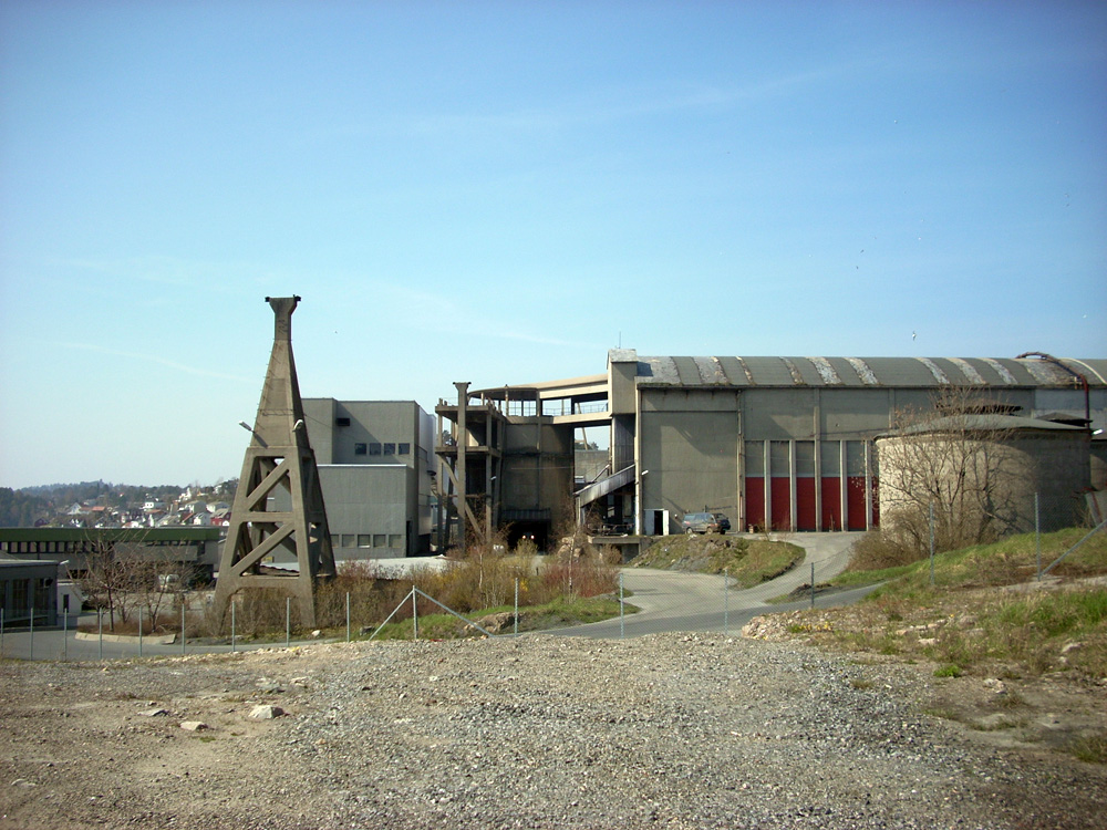 Arendal smelteverk in Eydehavn, Norway